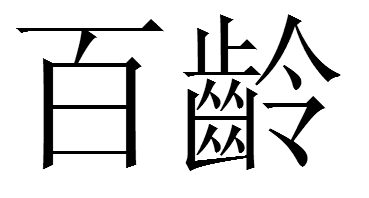 Pai Lin may be translated as "a hundred years", meaning also longevity.